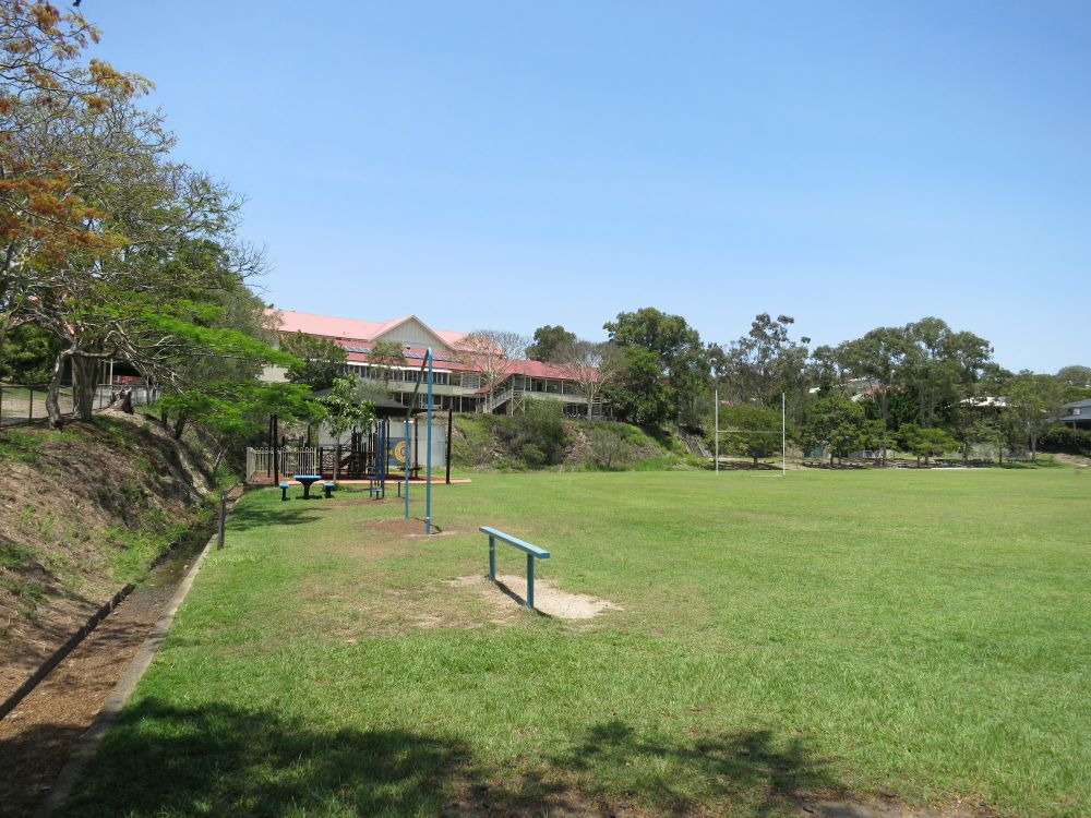 View south across playing field (2015)